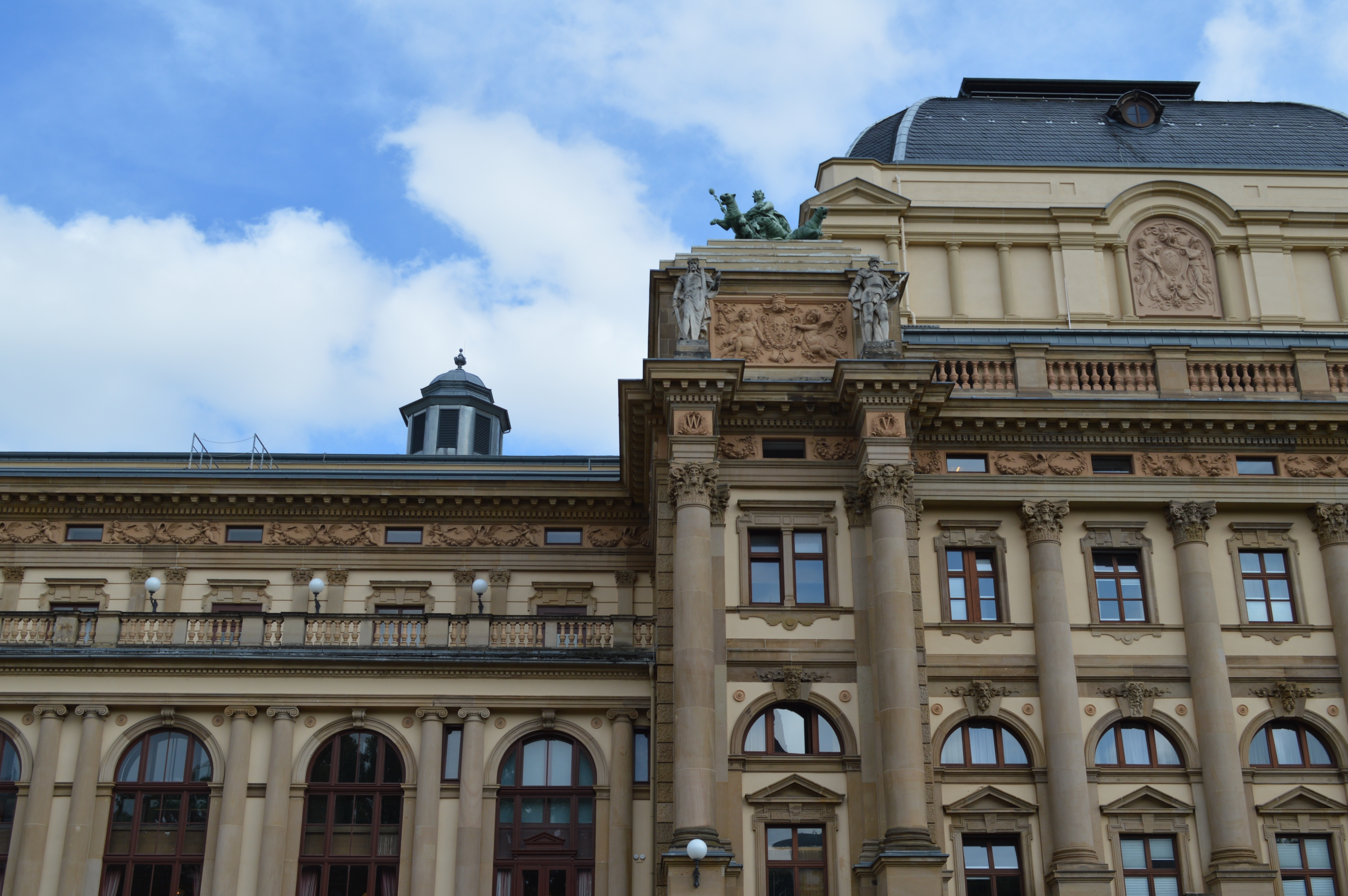 A portion of the Hessisches Staatstheater's western facade